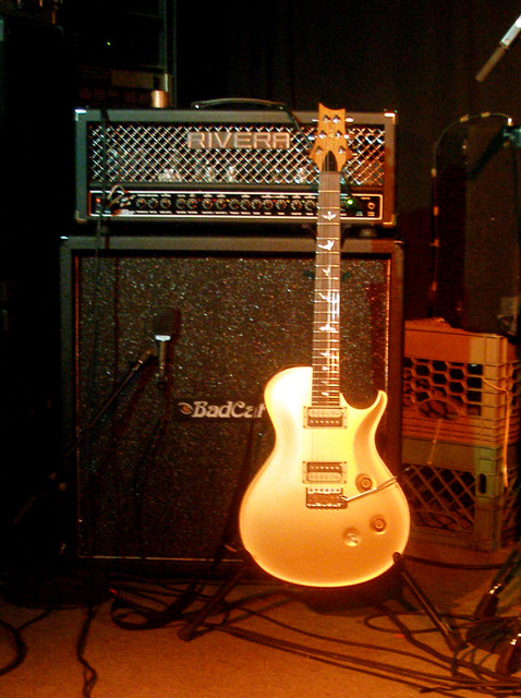 Steve Wilson's gold guitar on stage at Maxwell's in Hoboken, NJ.